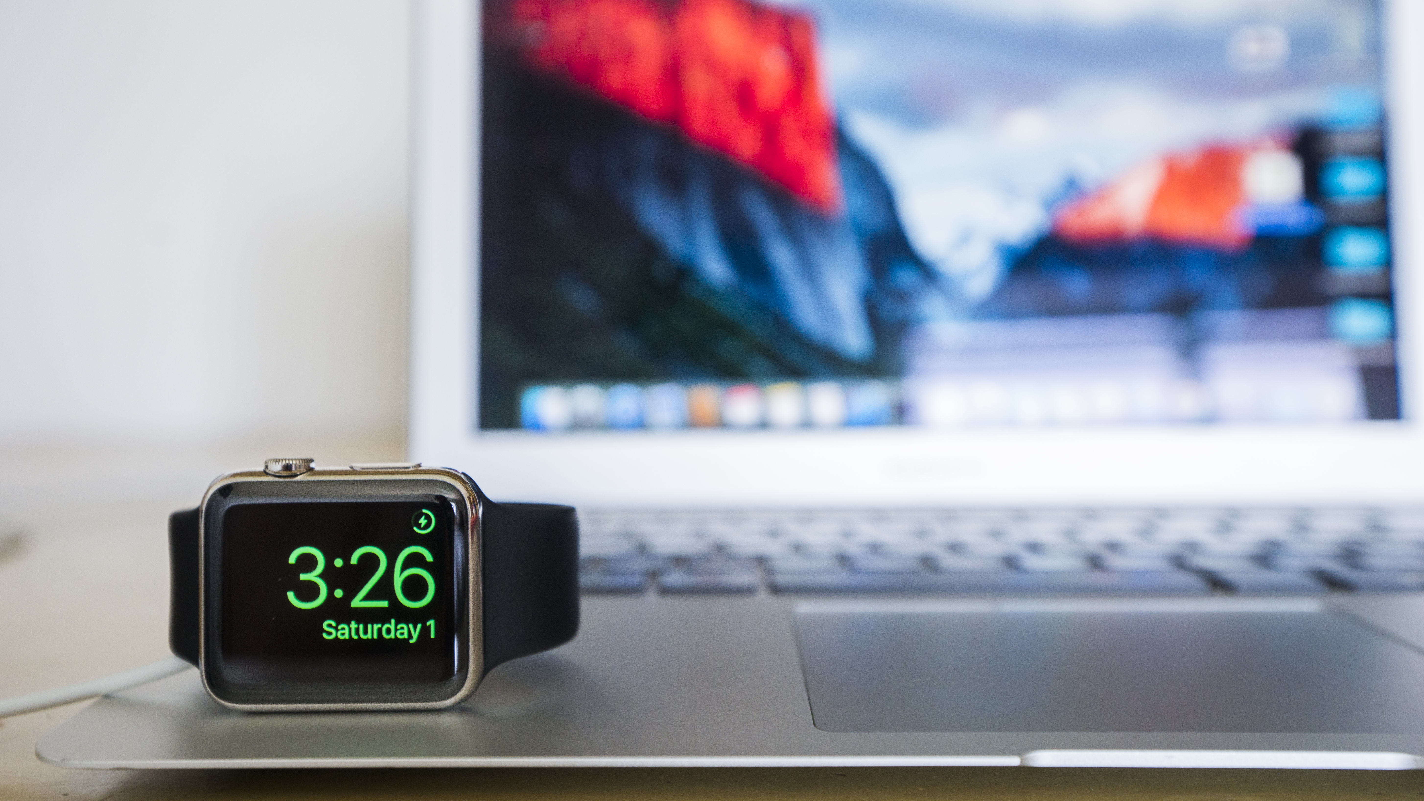 Apple Watch on a MacBook Air.